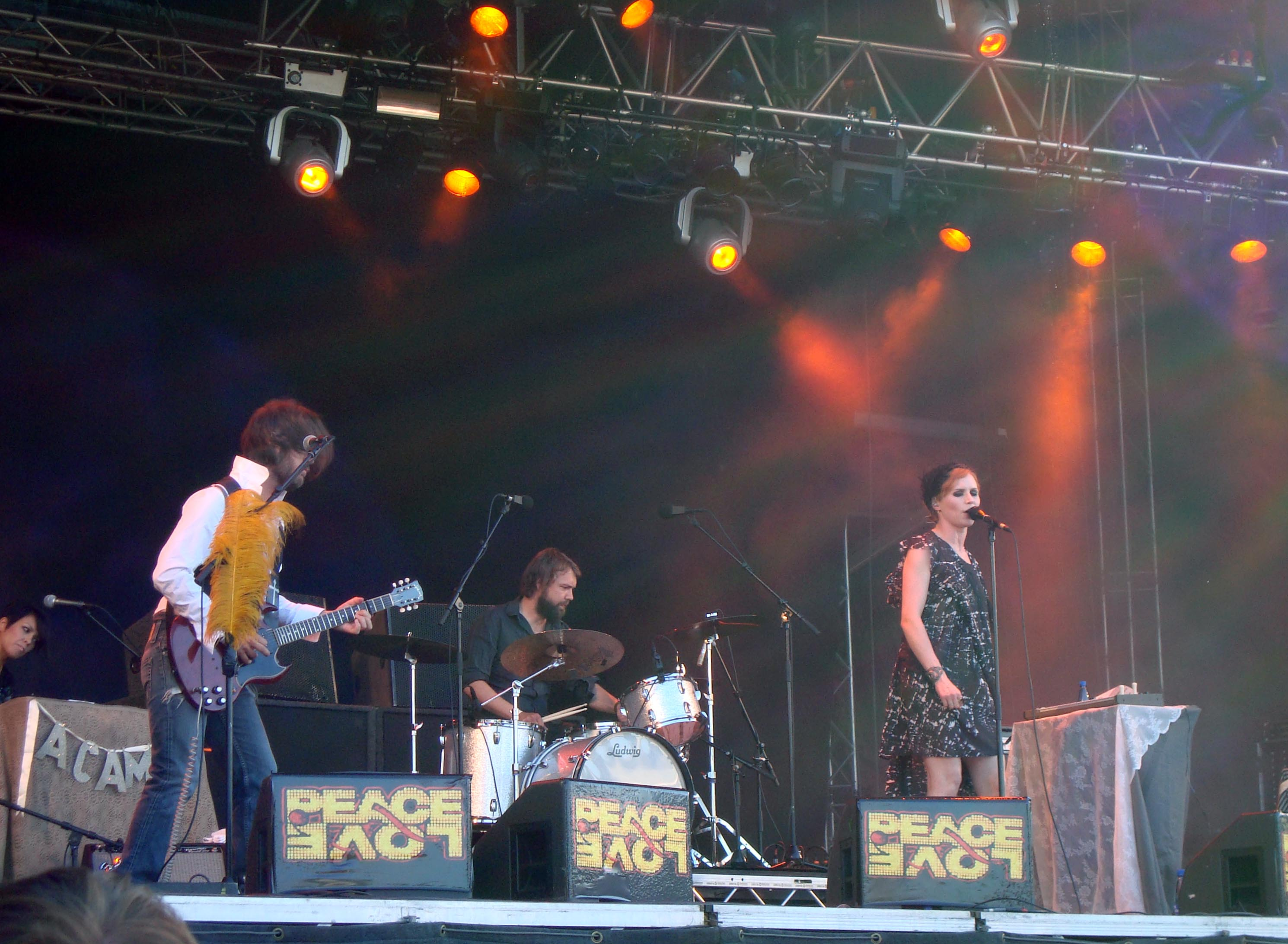 Pop band 'A Camp' at Peace and Love festival, Borlänge, Sweden.